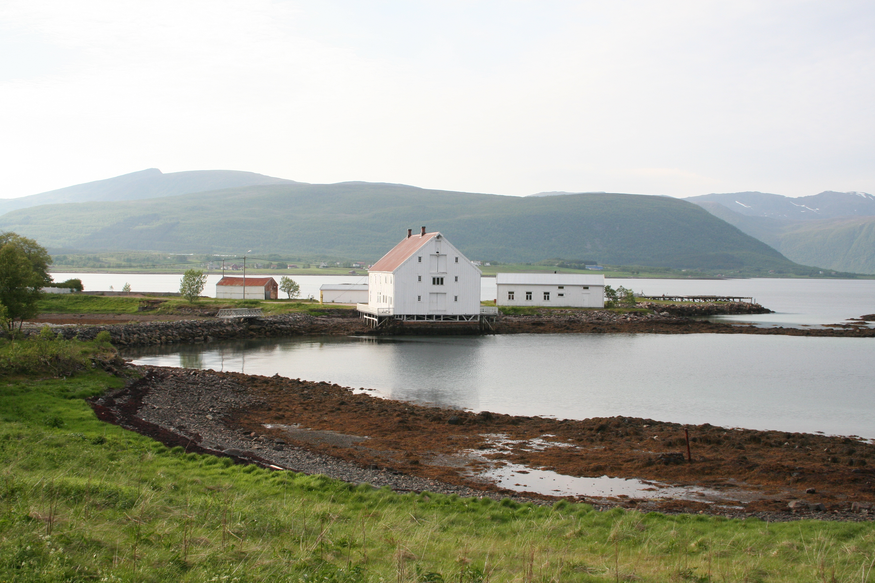 Picture from Jennestad in Norway, taken 11 June 2006. This picture was taken by me.